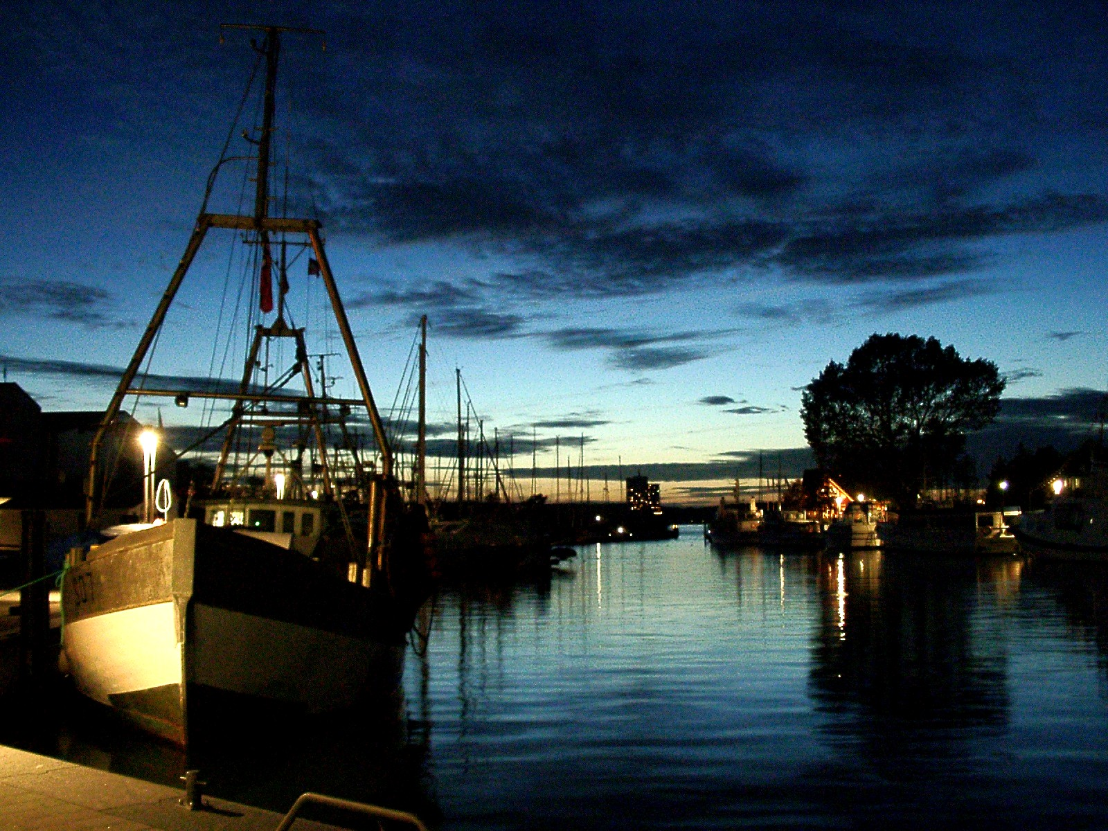 Fishing harbour at Niendorf/Ostsee at nightfall.